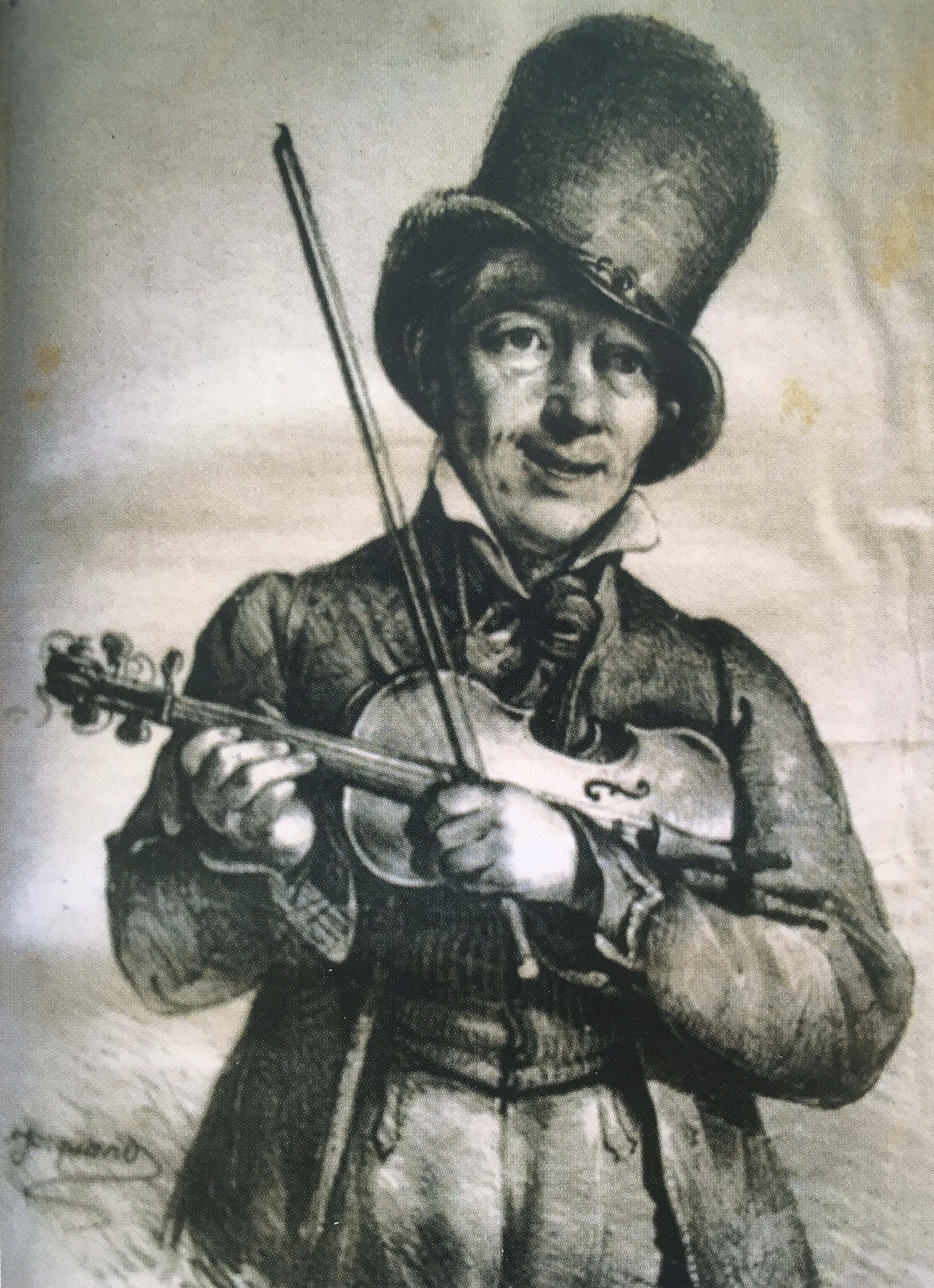 the French street performer and violinist Lambert Thomas Ladré, called père Thomas. For some years (1799–1804?) partner with Laurent Mourguet, the marionettist who invented Guignol, the famous Lyonnais puppet